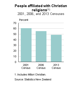 2013 NZ census - people affiliated with Christian religions at the 2001, 2006 and 2013 ceususes